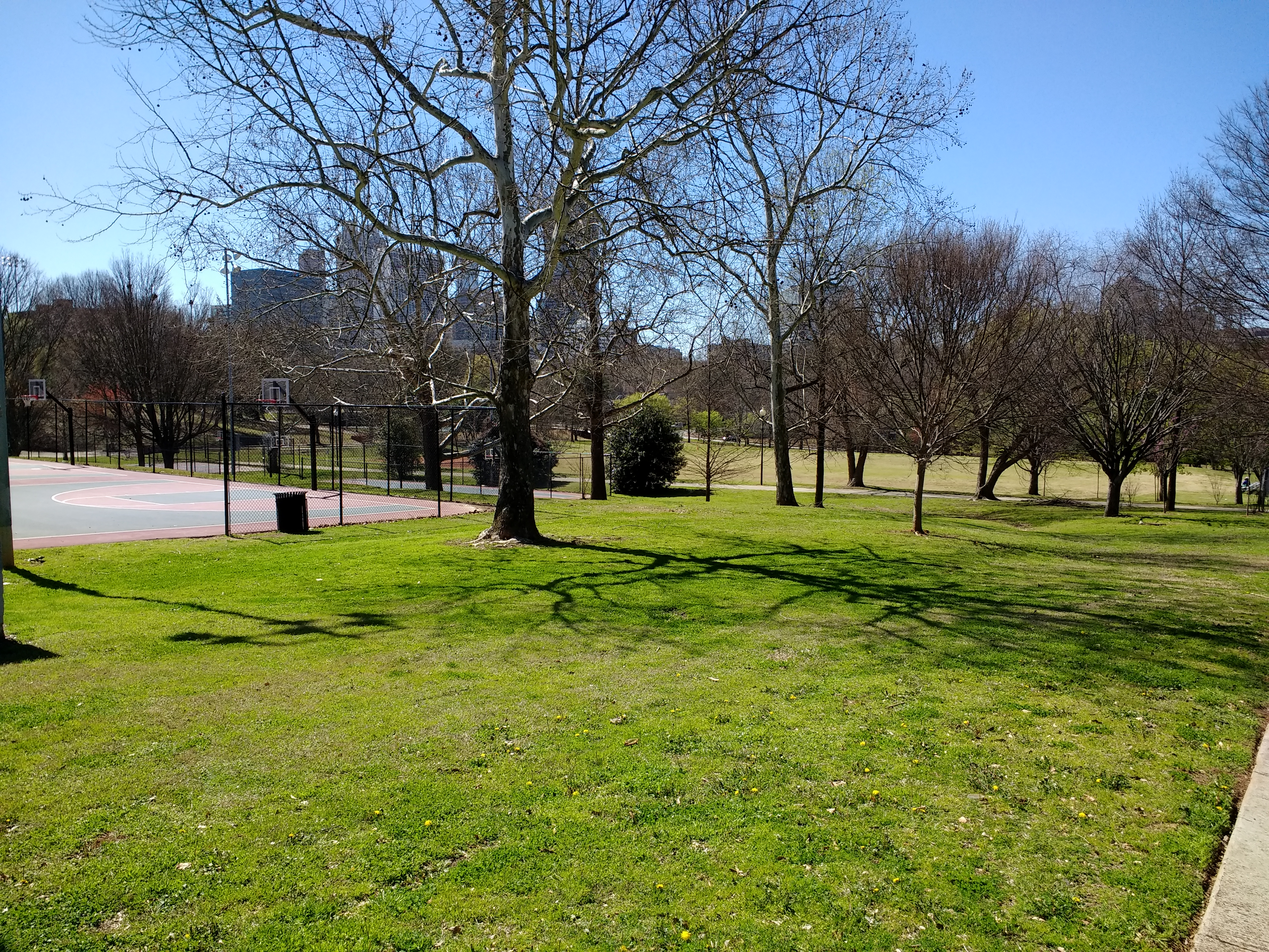 Central Park (Atlanta)